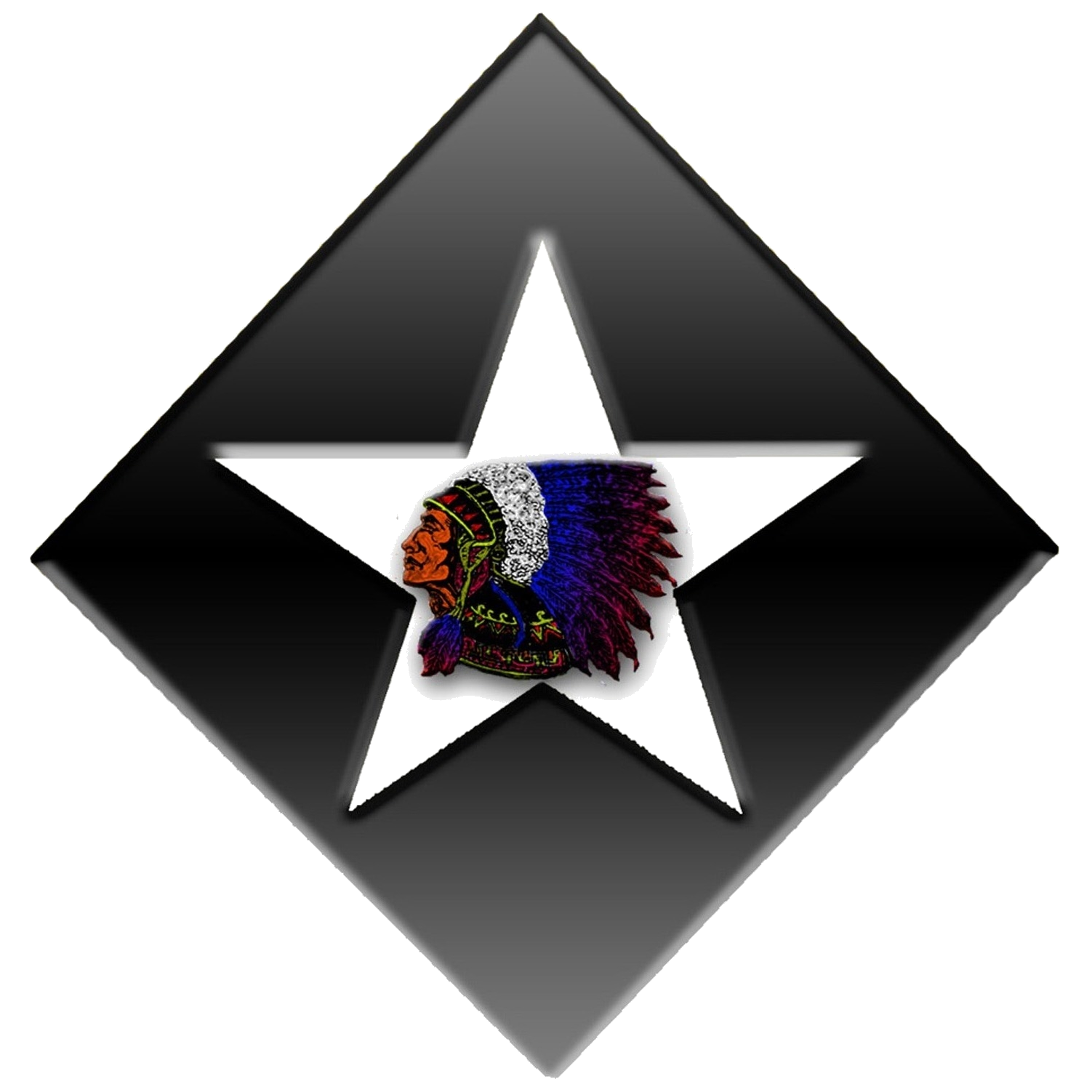 Insignia of the 6th Marine Regiment (United States)